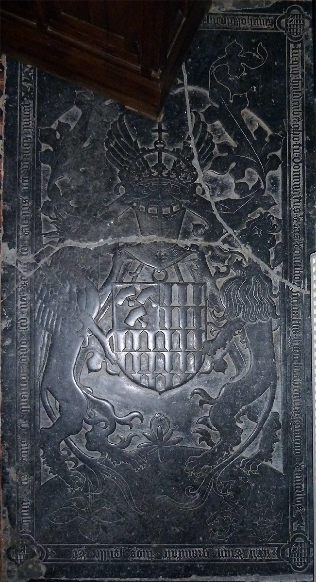 Tombstone Jan Van Houtem (Sint-Margriete-Houtem, Belgium)